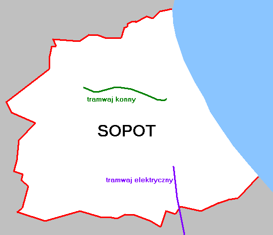 Map of tram network in Sopot